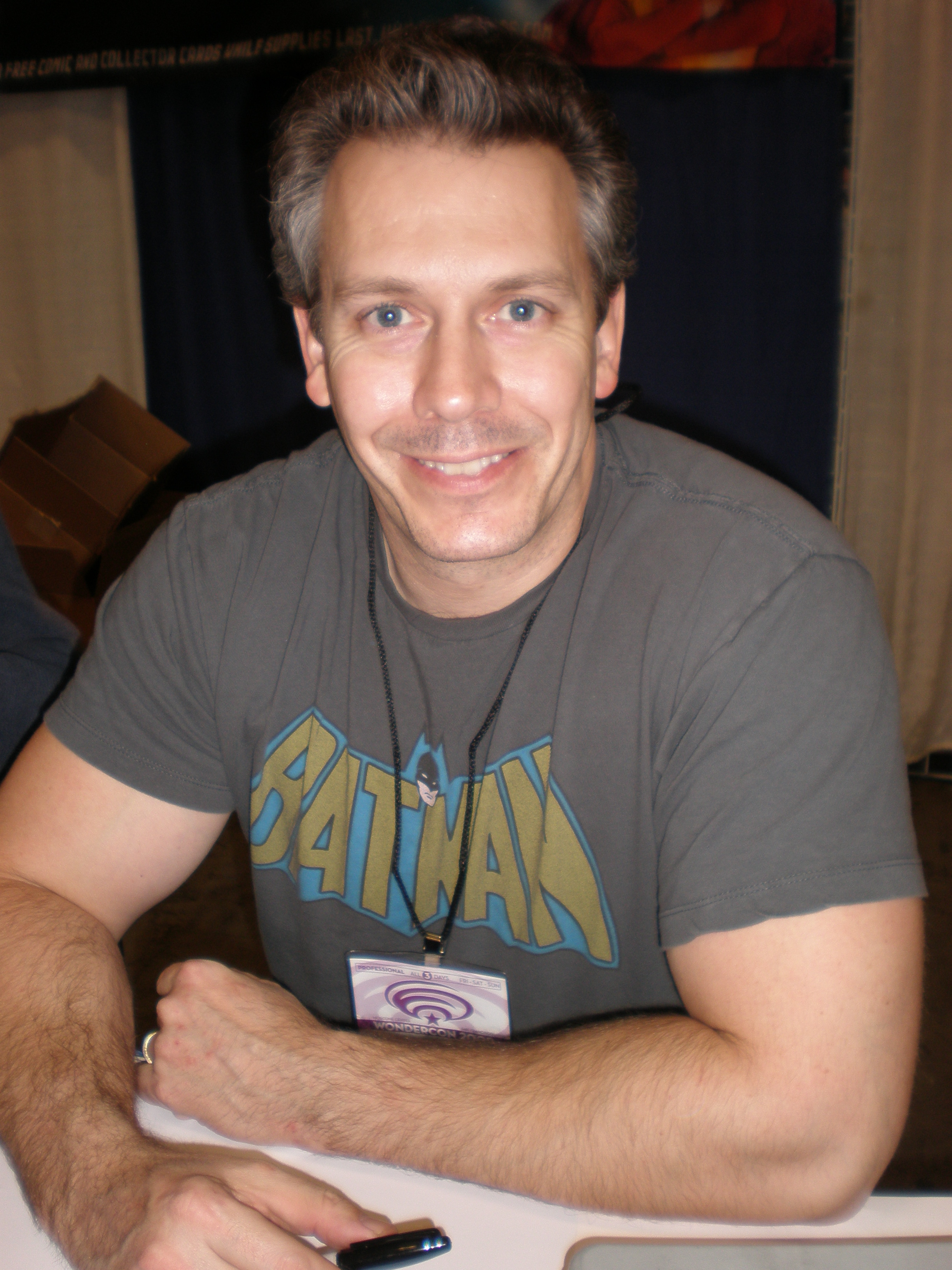 Artist Tom Richmond at a promotional signing for Super Capers at WonderCon 2009.